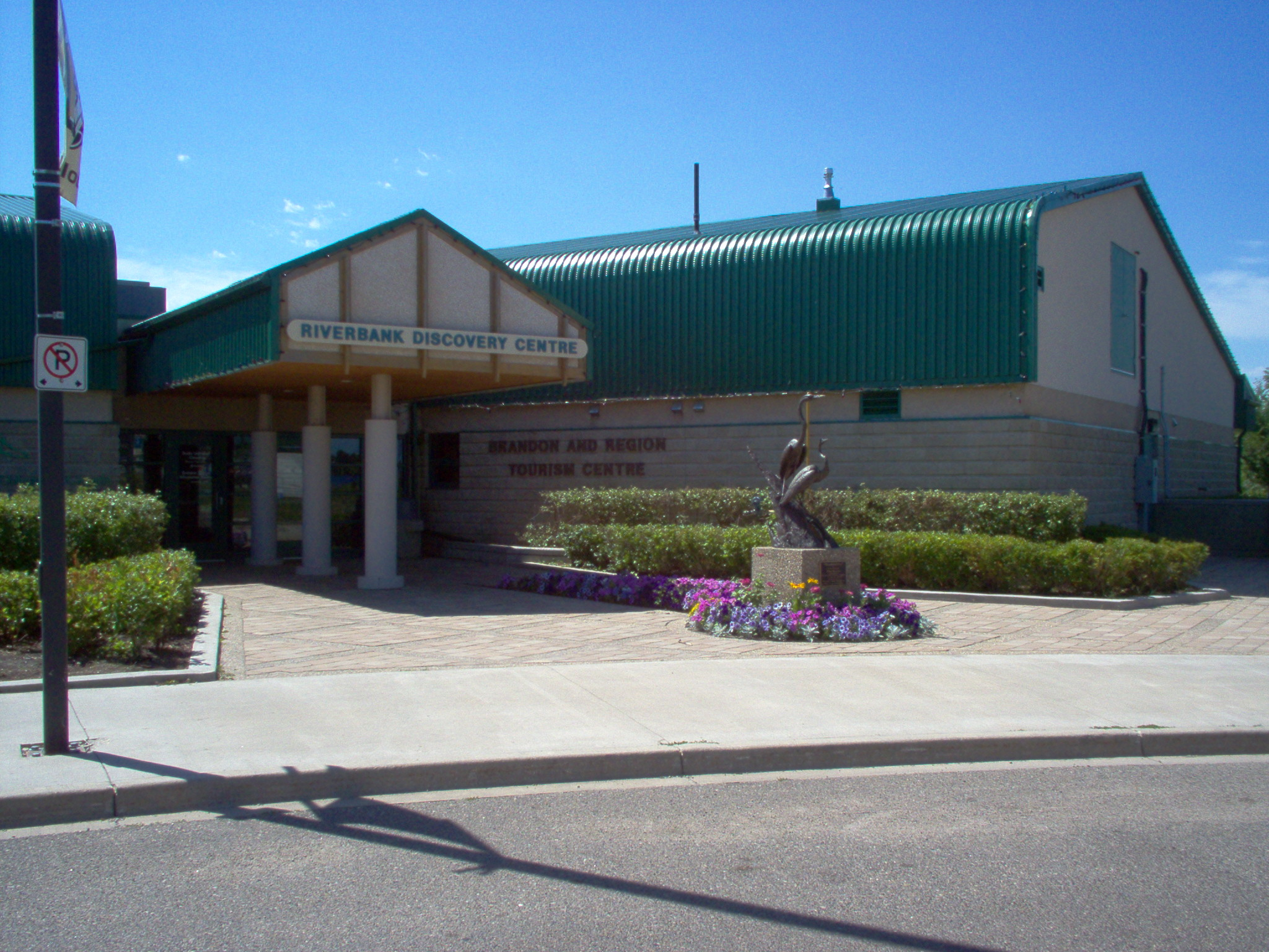 The Riverbank Discovery Centre in Brandon, MB, Canada. It is home to offices for Ducks Unlimited as well as for Brandon Tourism.